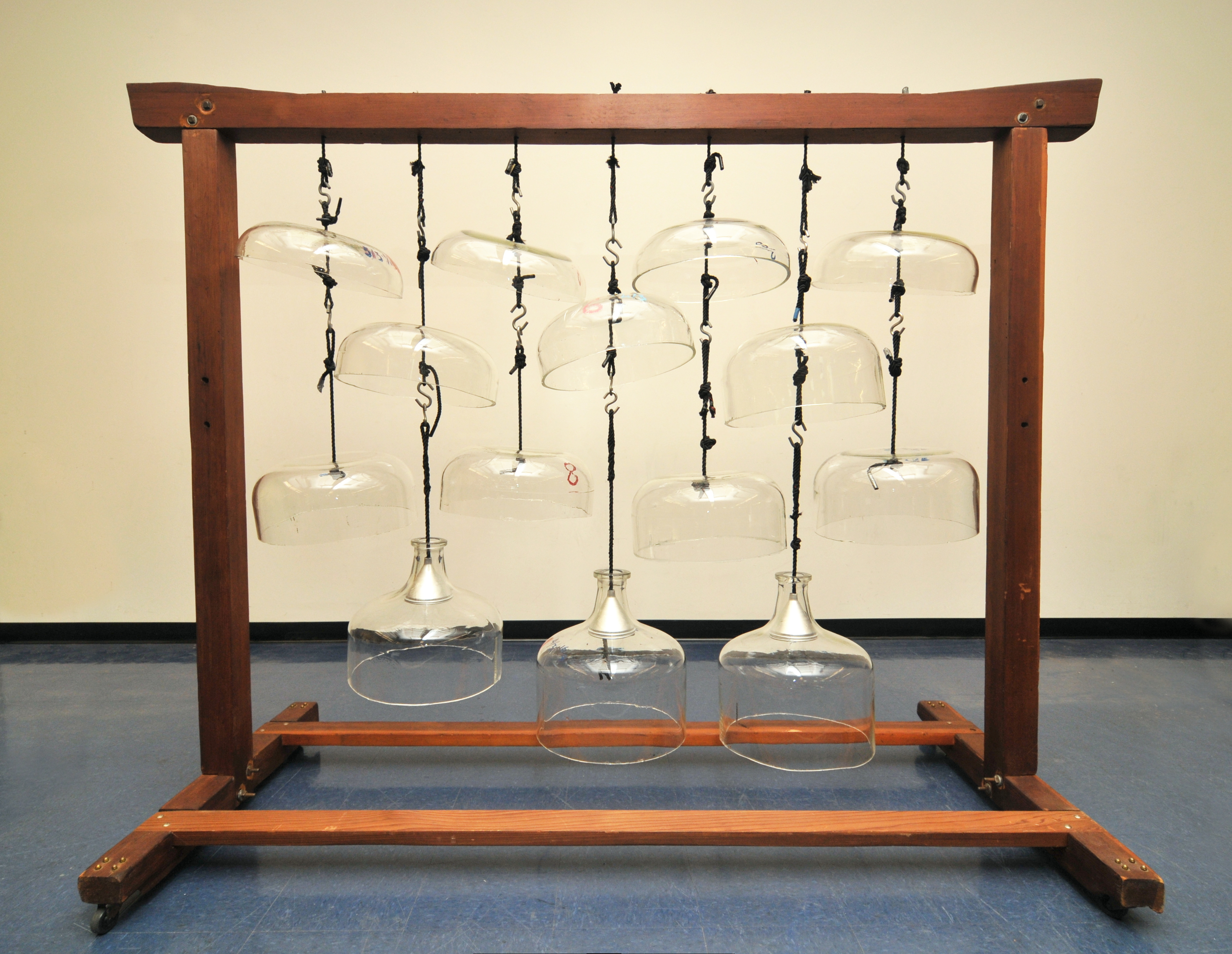 Harry Partch's Cloud-Chamber bowls, a percussion instrument made from carboys. Photographed at the Harry Partch Institute at Montclair State University.